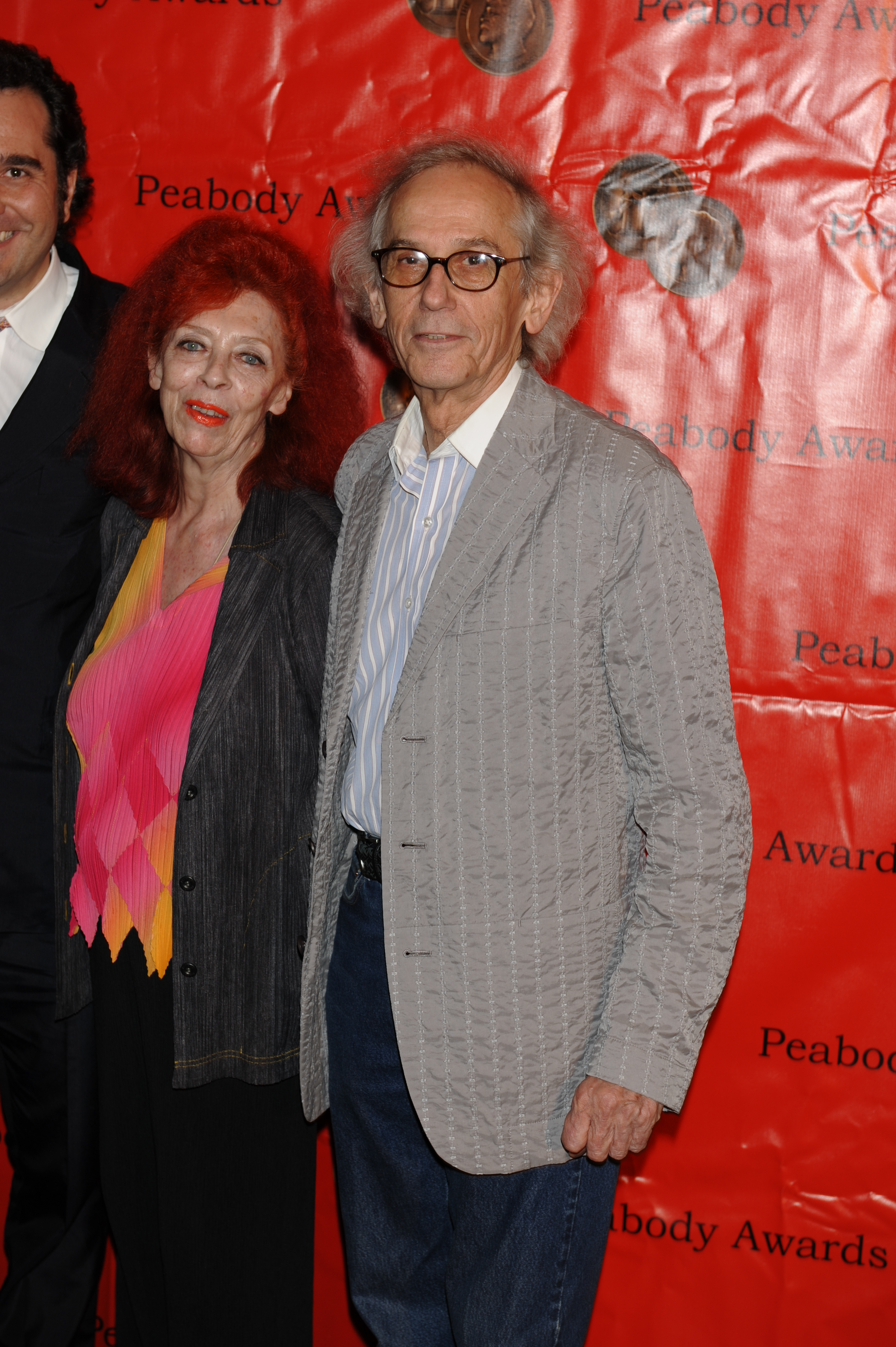 PHOTO CREDIT: ANDERS KRUSBERG / PEABODY AWARDS Jean-Claude and Christo 68th Annual Peabody Awards Luncheon Waldorf=Astoria Hotel New York, NY USA May 18, 2009